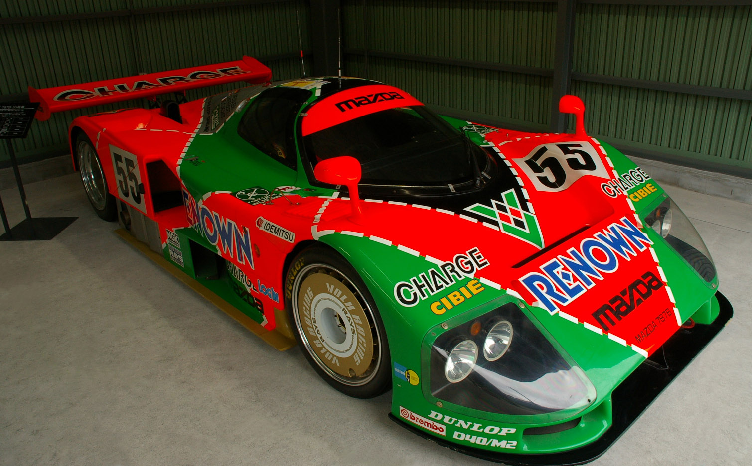 Mazda 787B No.55 in Otaru synthesis museum.